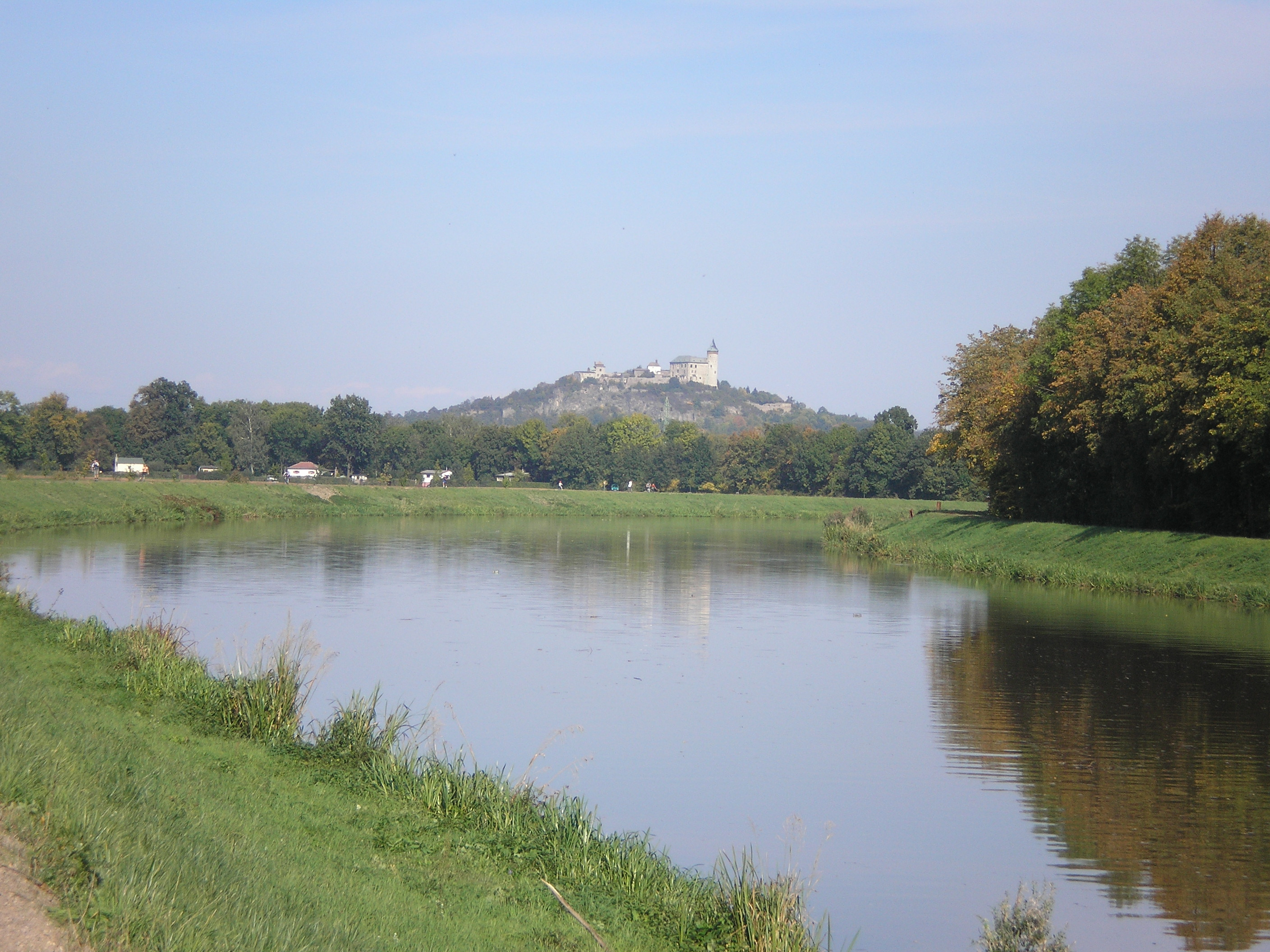 Kunětická hora Castel4